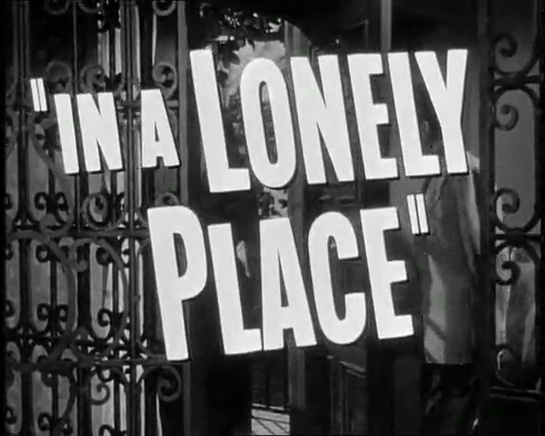 Screenshot from trailer for the movie In a Lonely Place (1950), featuring stars Gloria Grahame and Humphrey Bogart. Title card.